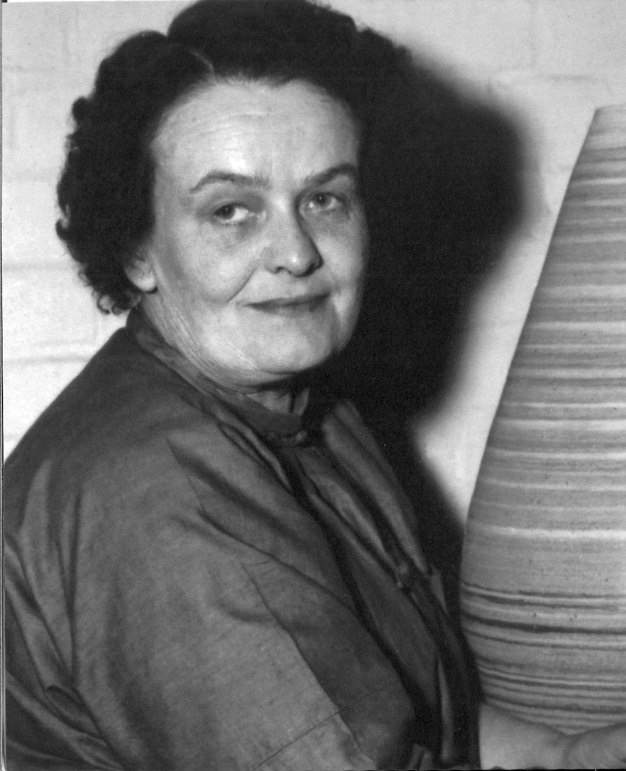 Photograph of the Finnish-American ceramist Maija (Majlis) Grotell (1899–1973).